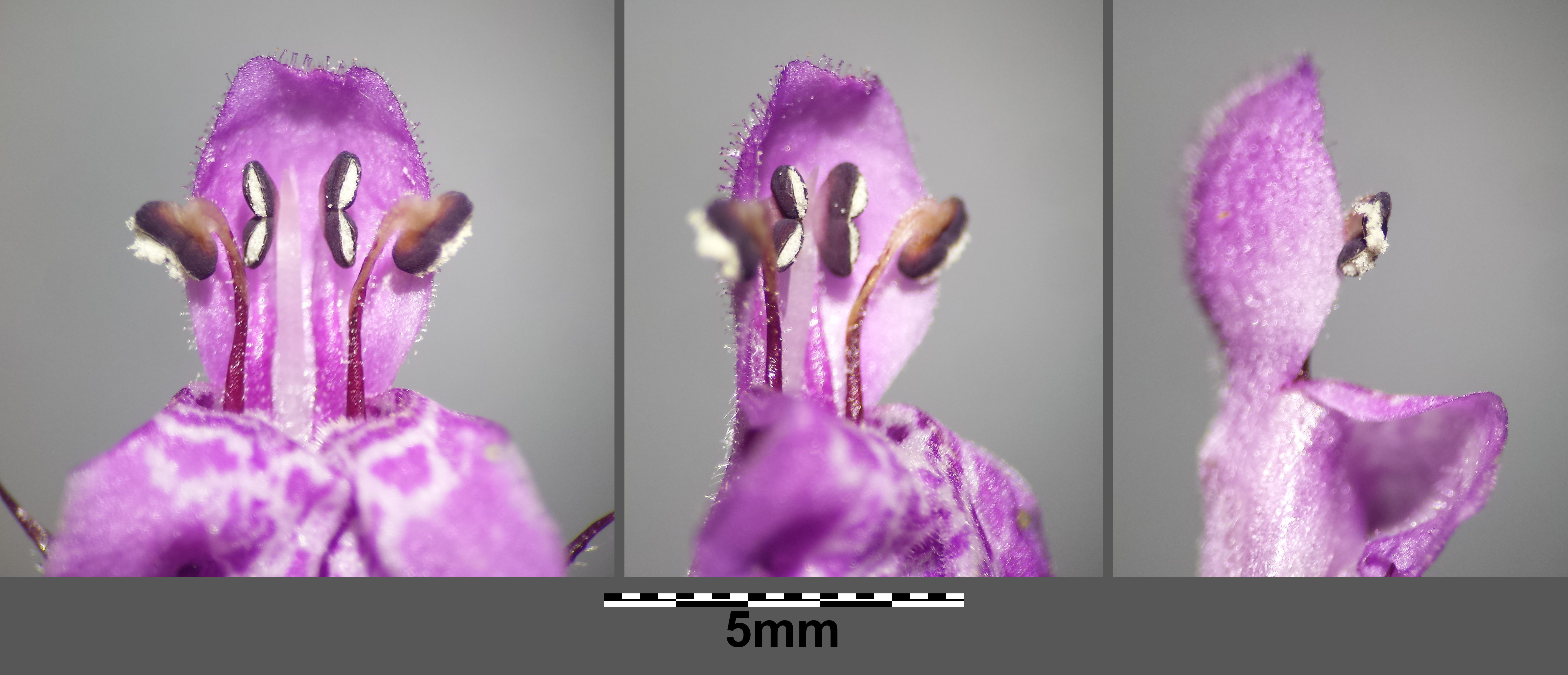 Opening of corolla with stamina Taxonym: Stachys palustris ss Fischer et al. EfÖLS 2008 ISBN 978-3-85474-187-9 Location: near Merkersdorf, district Korneuburg, Lower Austria - ca. 250 m a.s.l. Habitat: border of a shrubbery